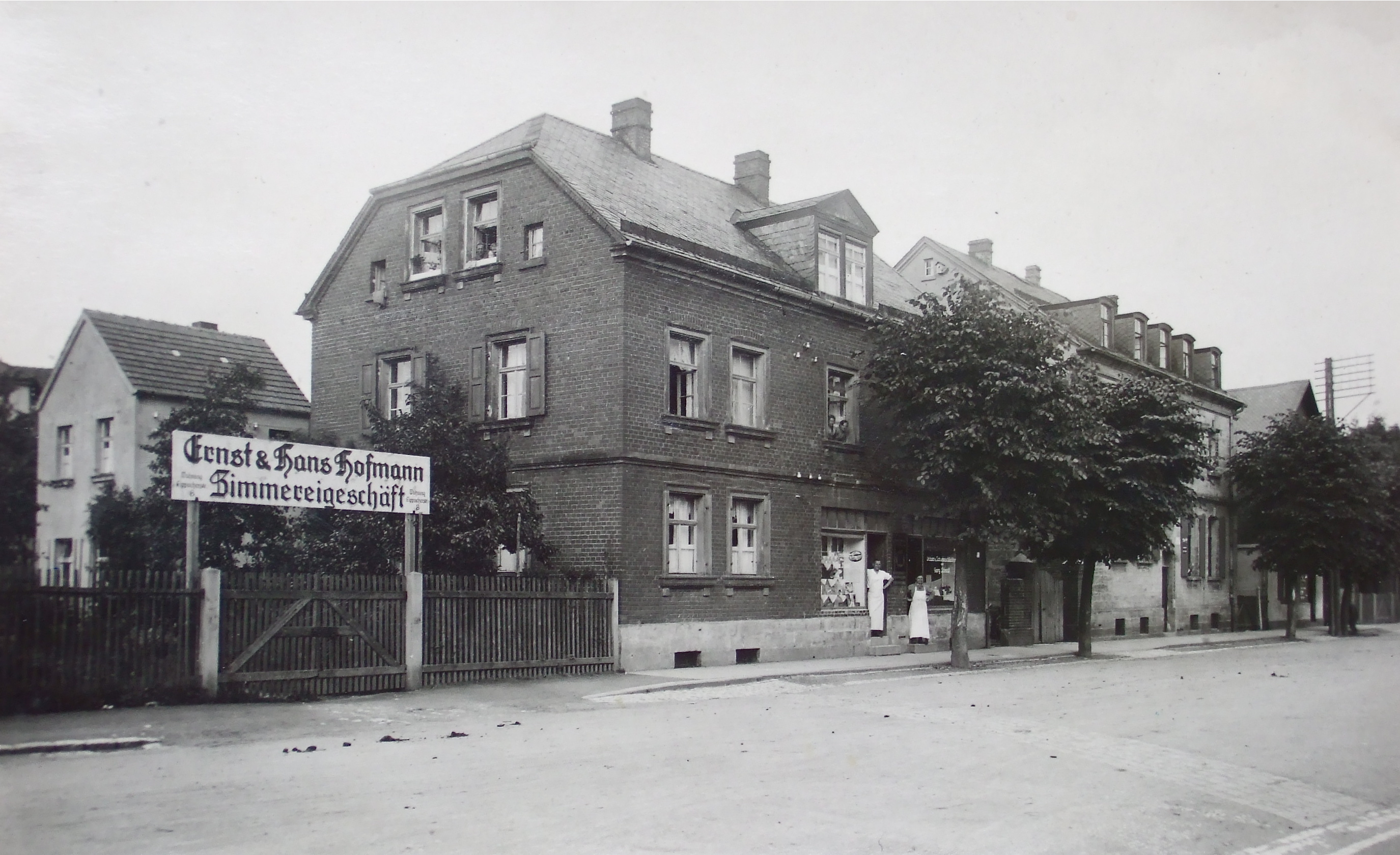 Upper street Kreuz in Bayreuth